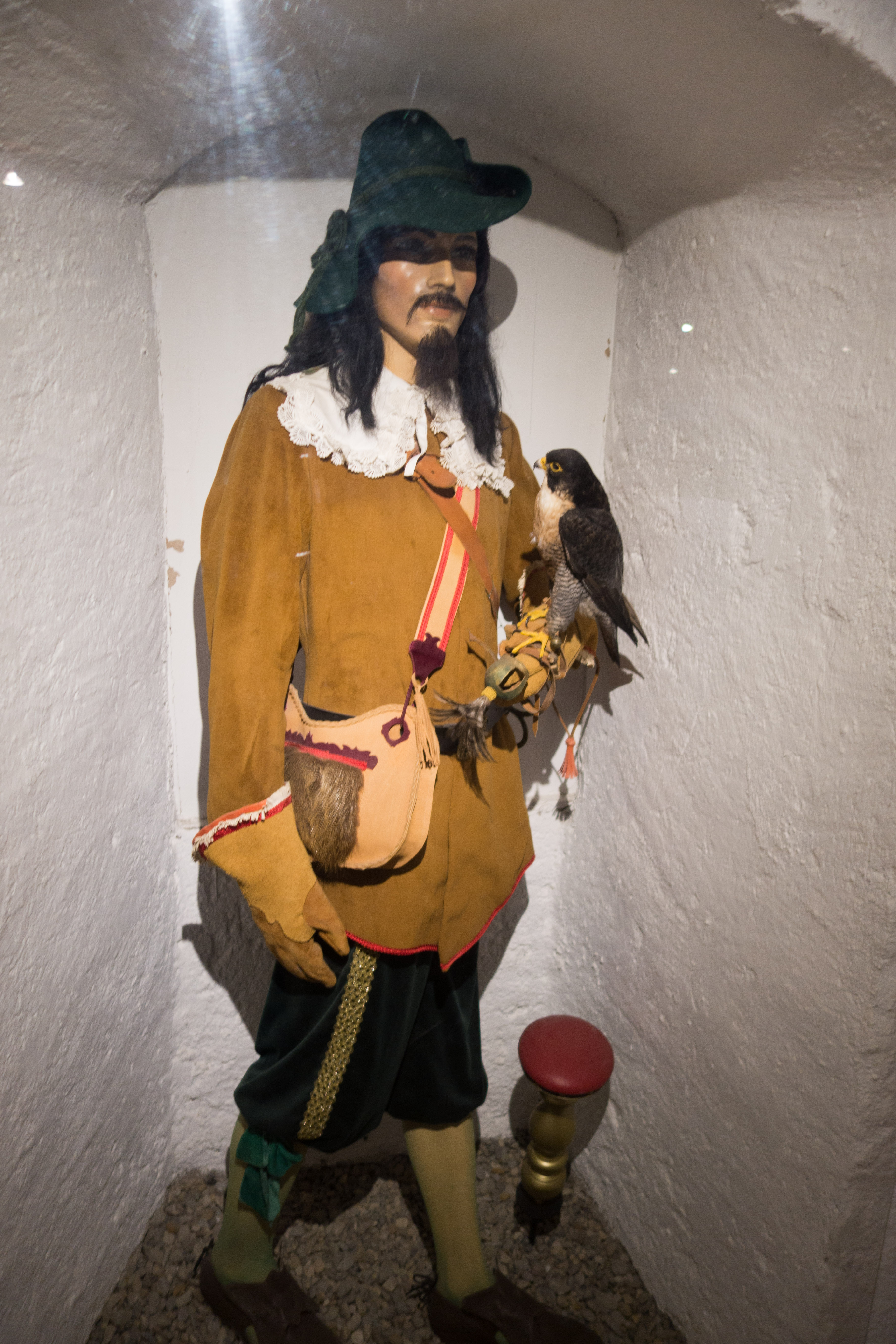 Austria